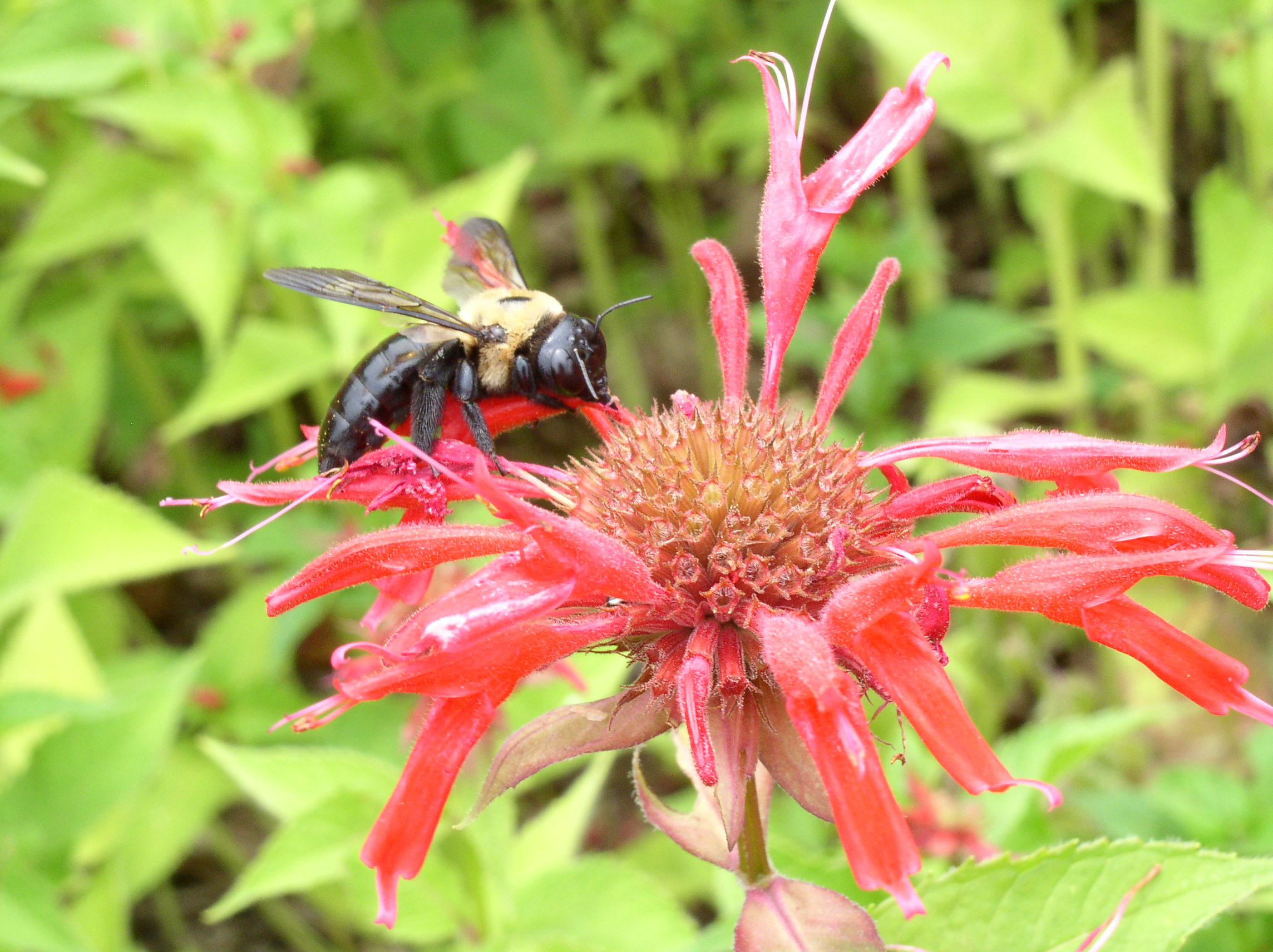 Xylocopa virginica on Monarda. Fort Washington, Montgomery Co. SE PA